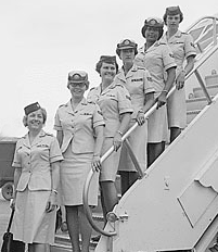 The first five enlisted women in the Air Force (WAF) and the fourth WAF officer to be assigned to Vietnam arrive at Tan Son Nhut Air Base, South Vietnam. The women (left to Right) are: Lt Col June H. Hilton, A1C Carol J. Hornick, A1C Rita M. Pitcock, SSgt Barbara J. Snavely, A1C Shirley J. Brown, and A1C Eva M. Nordstrom. June, 1967.